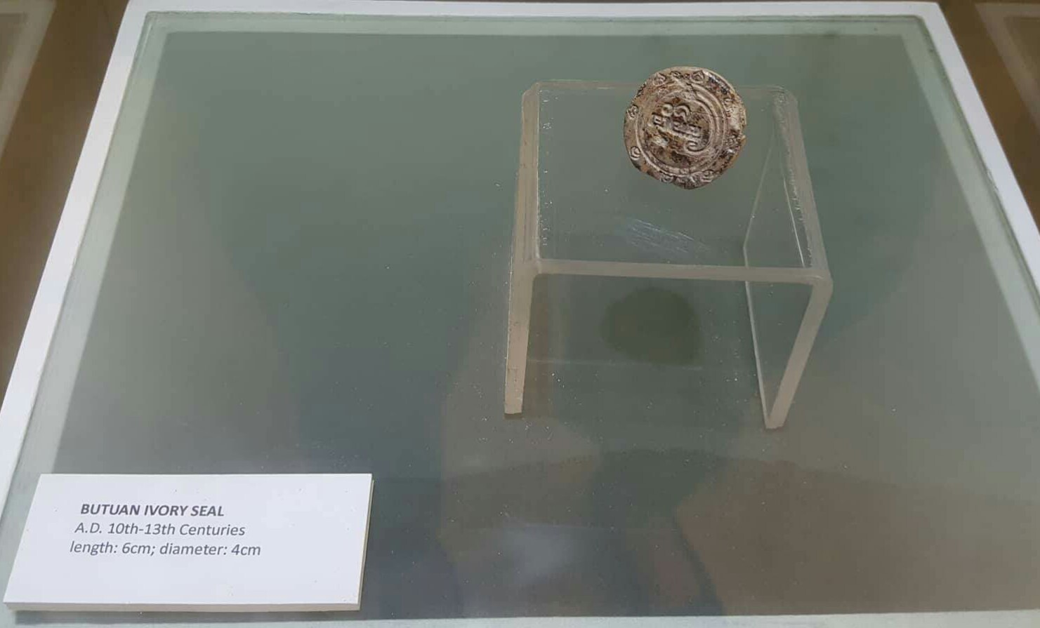 The Butuan Ivory Seal was recovered in a prehistoric shell midden site dating back from 10th to 13th century CE by pothunters in Ambangan, Libertad, Butuan City, Philippines in the 1970's. Filipino: Ang Garing Pantatak ng Butuan ay natagpuan sa isang sinaunang pinagtatambakan ng mga kabibe na tinatansyang may edad ika-10 hanggang ika-13 dantaon ng mga naghahanap ng palayok sa Ambangan, Libertad, Lungsod ng Butuan, Pilipinas noong dekada '70. Kasama ang iba pang liktaw na natagpuan sa iba't ibang pook sa Butuan hanggang ngayon, itong selyong gawa sa garing ay pinatutunayang ang Butuan ay isang mahalagang sentro ng kalakalan sa rehiyon noong unang panahon.